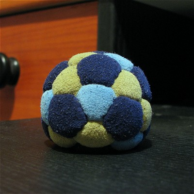 Typical professional 32-panel Footbag. It's made out of thin fabric called Facile and filled with steel shot. The best Footbags are stitched by players - they know the best what they need.